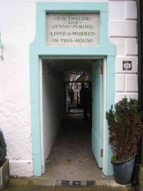 Detail of house in High Street, Kirkcudbright. This is a close-up of the house illustrated in 343612. It was occupied in the early part of the 20th century by the celebrated illustrator, Jessie King (one of the "Glasgow Girls" school of artists) and her husband, the artist E A Taylor